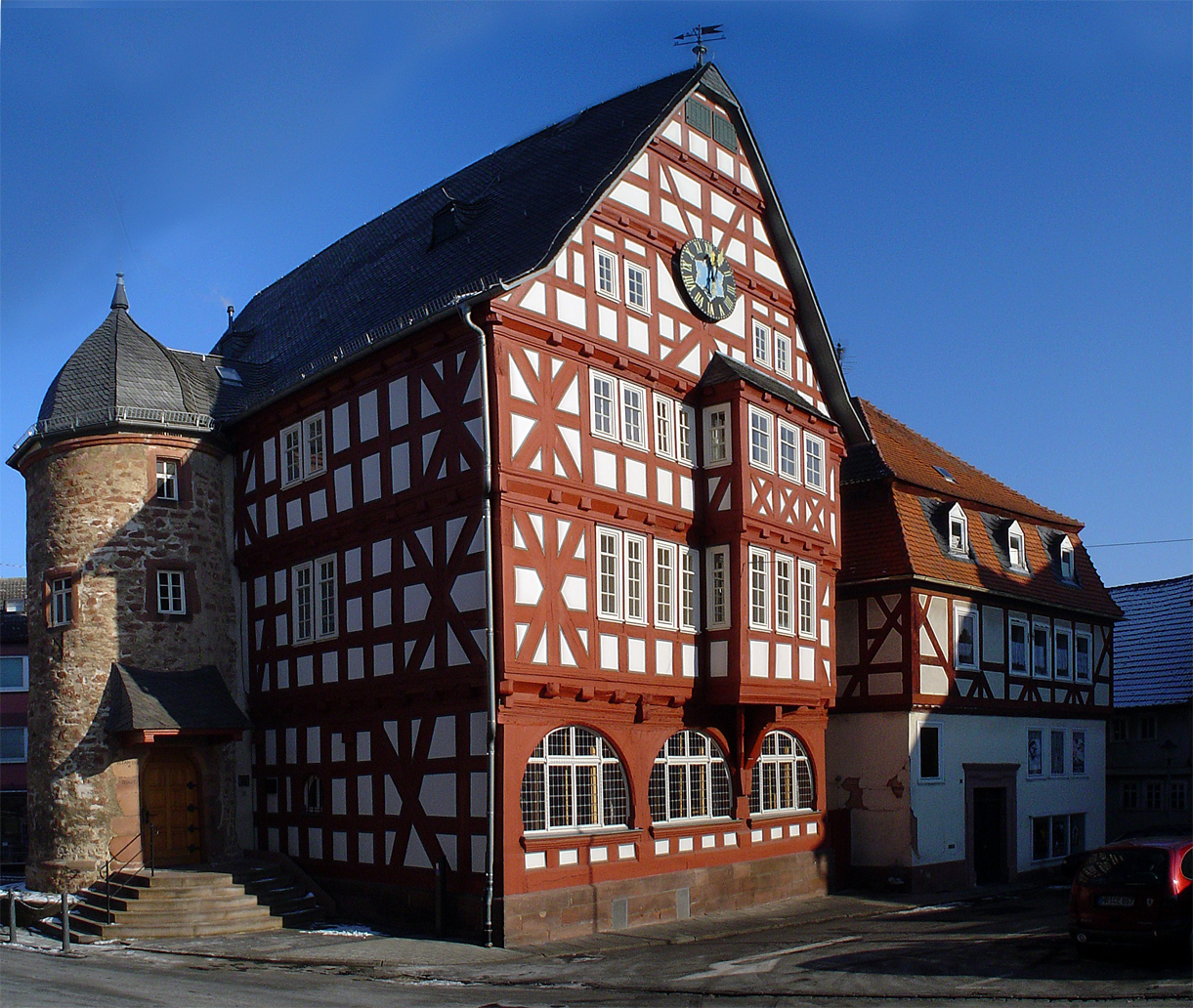 Cityhall of Kirchhain (Hesse/Germany)